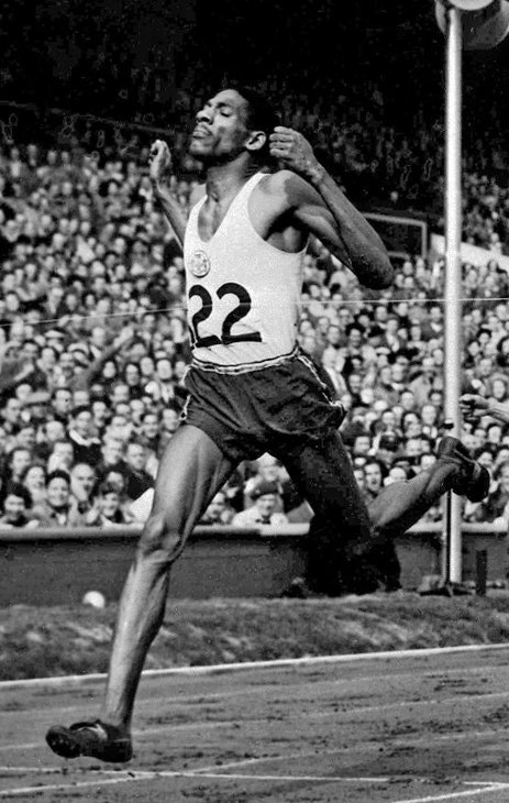 1948 Press Photo Jamaica's runner Arthur Wint wins 400-meter Olympic Games run